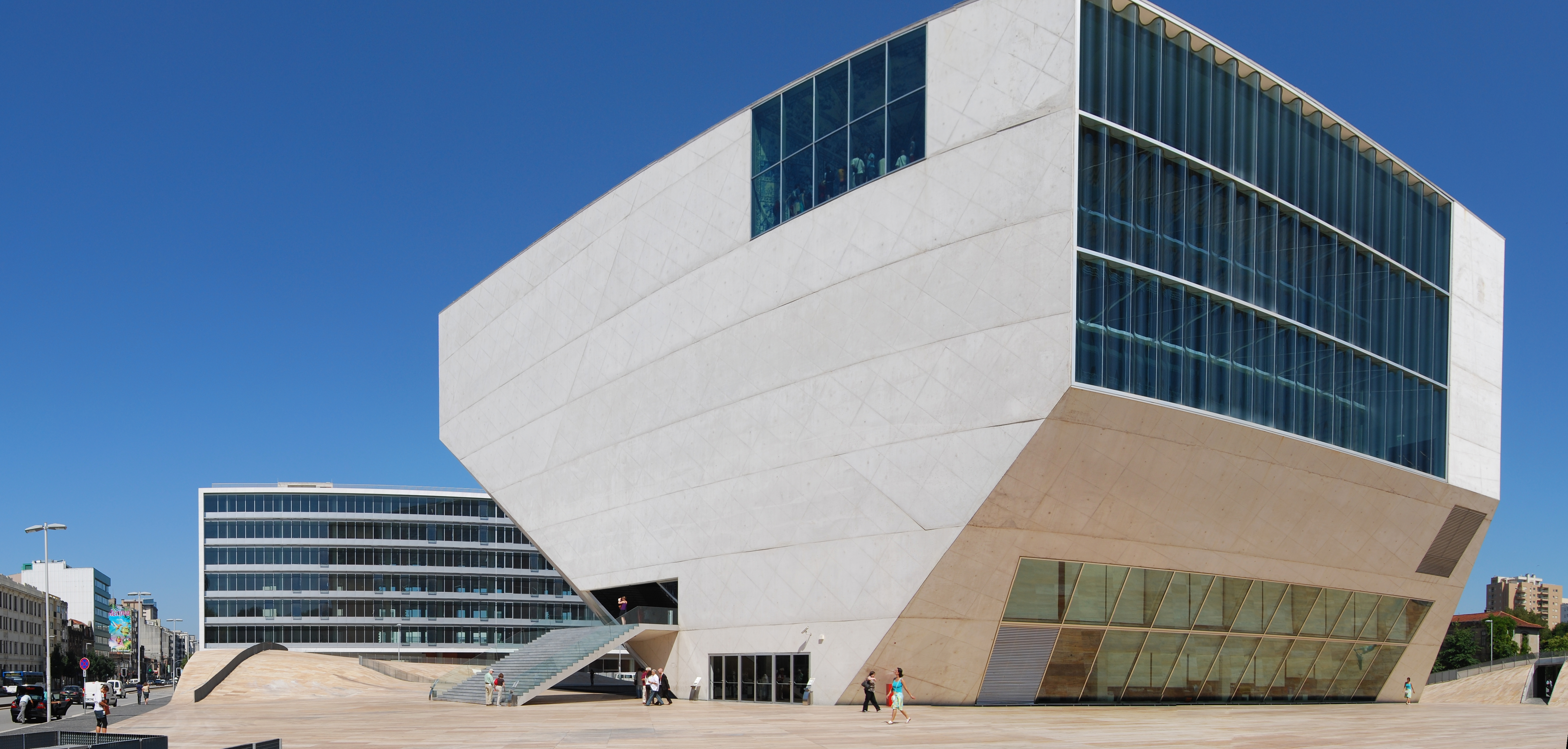 Sight of Casa da Música